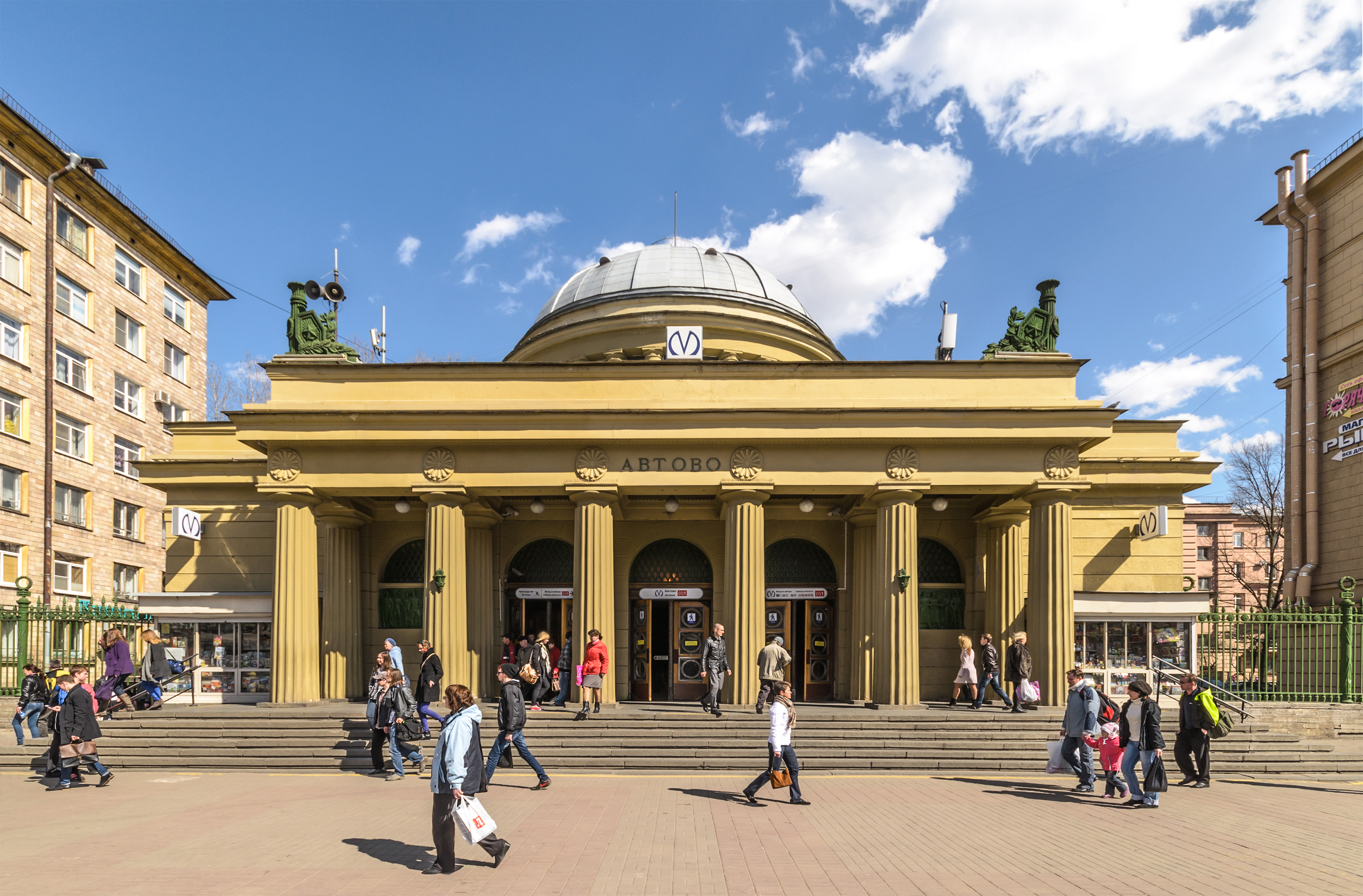 Avtovo station of Saint Petersburg Subway, pavilion